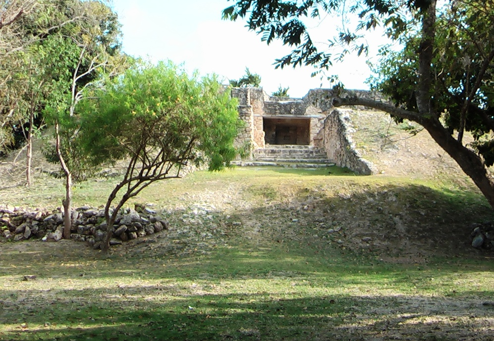 Maya Tempel in Corozal